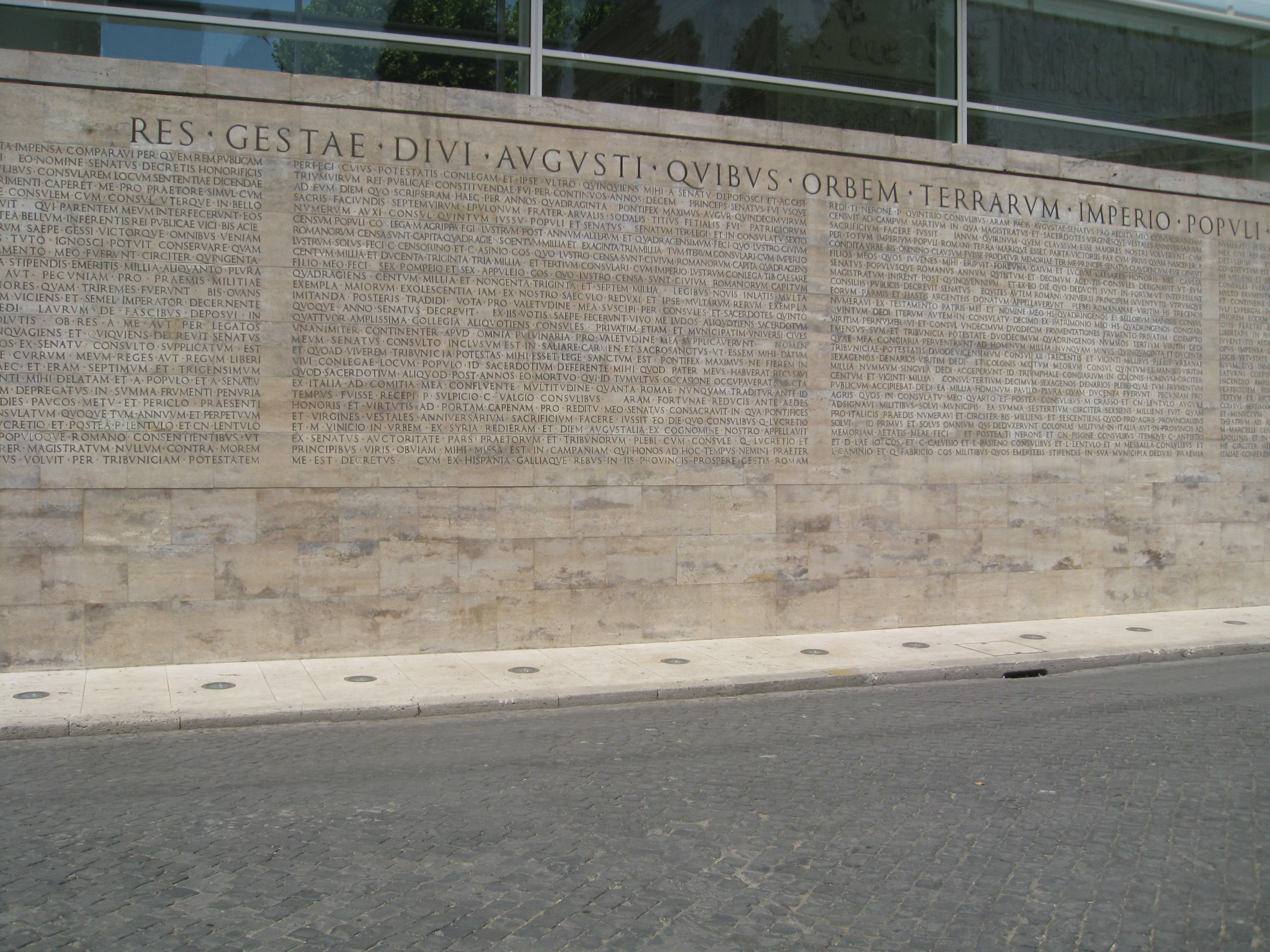 "The deeds of the divine Augustus, by which he subjected the whole world to the Roman people..." This is a modern copy of an ancient inscription about (and mostly written by) the emperor Augustus. I found it very impressive because it seemed to suggest that the modern Romans hold Augustus in immense esteem so that they want everybody to know about him in his own words. This is a wall of the building surrounding the Ara Pacis (which I didn't get to see); it was designed by the American architect Richard Meier.